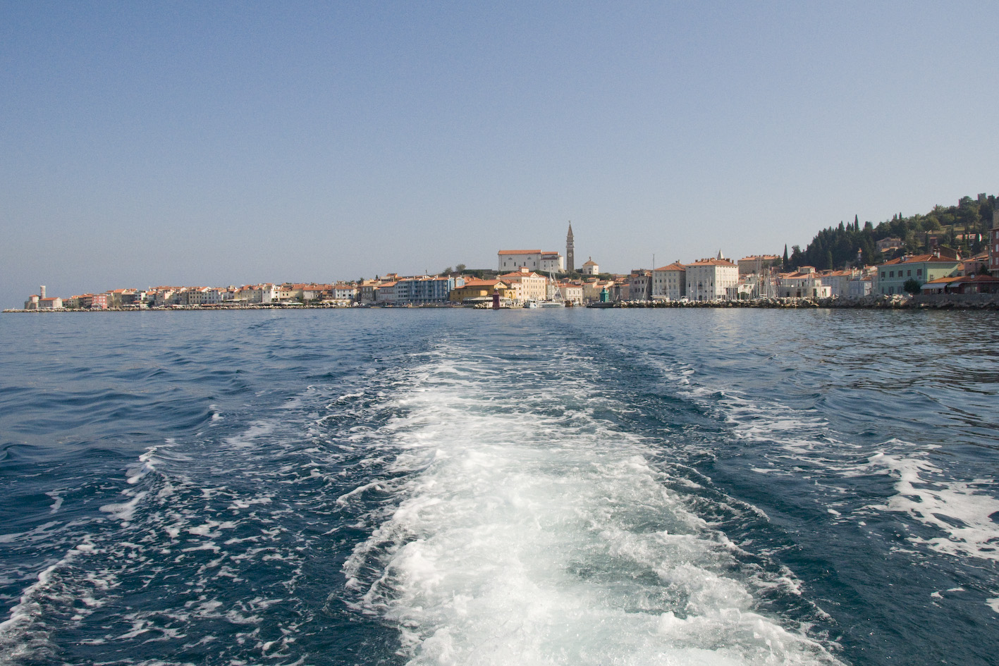 Piran, Slovenia. View from the sea.